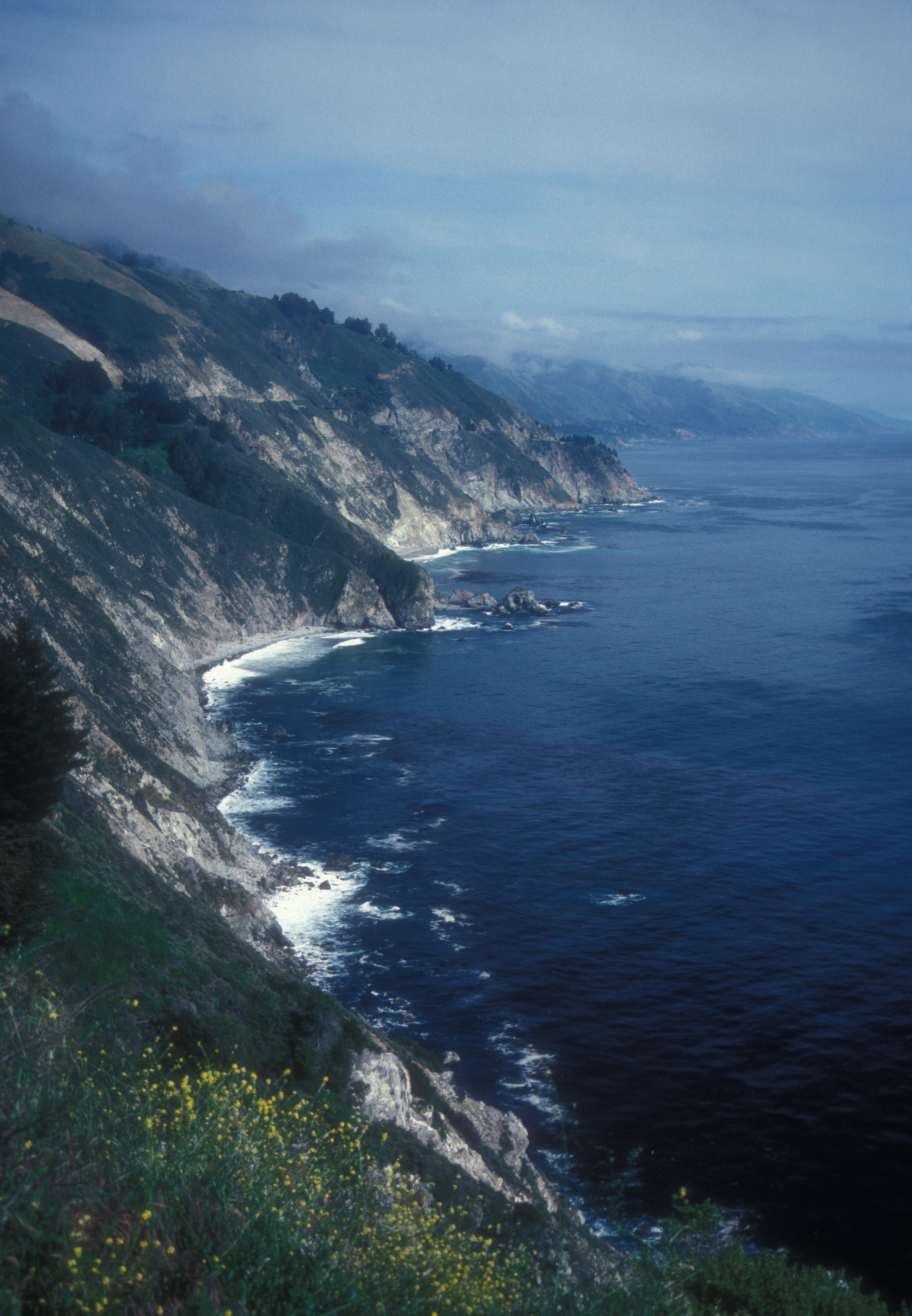 THIS PICTURE SHOWS THE DRAMATIC COASTLINE VIEWED FROM NEPENTHE RESTAURANT